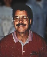 Former race driver in NASCAR Ernie Irvan.